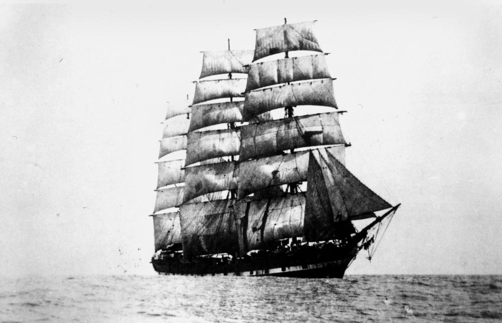 Macquarie (ship)